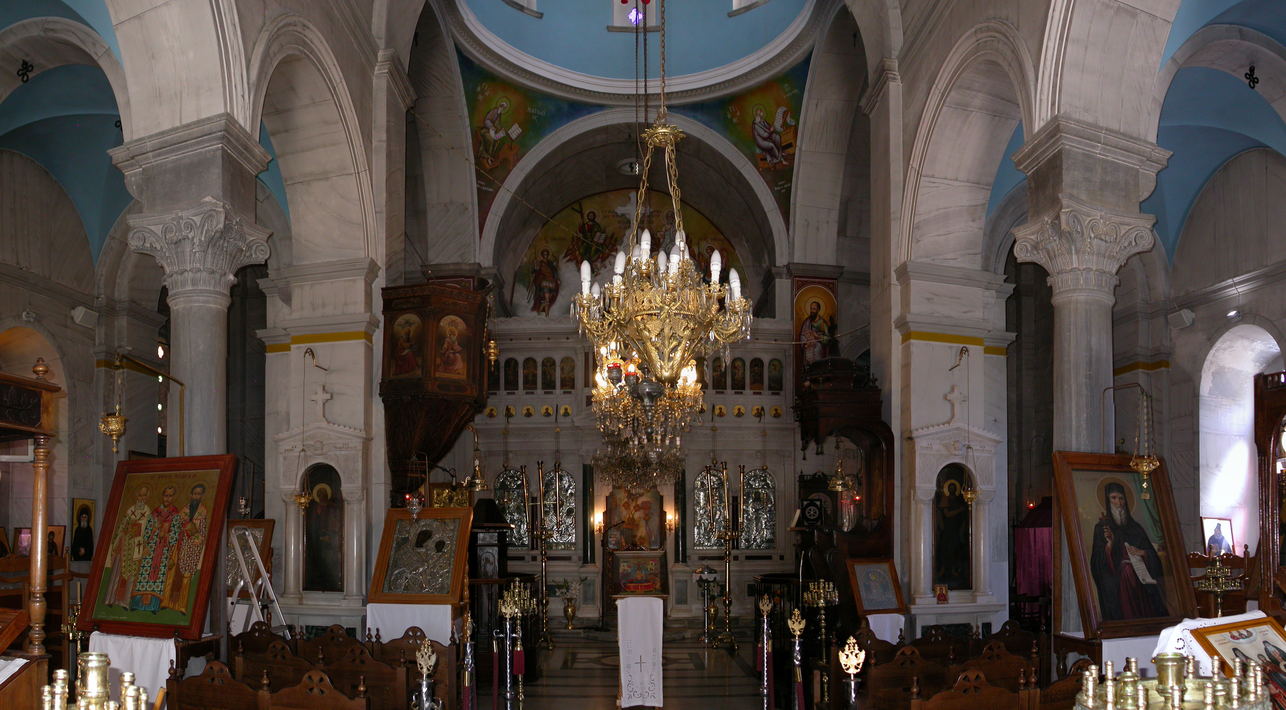 In the interior of Holy Trinity at Kaloxilos of Naxos, Cyclades, Greece